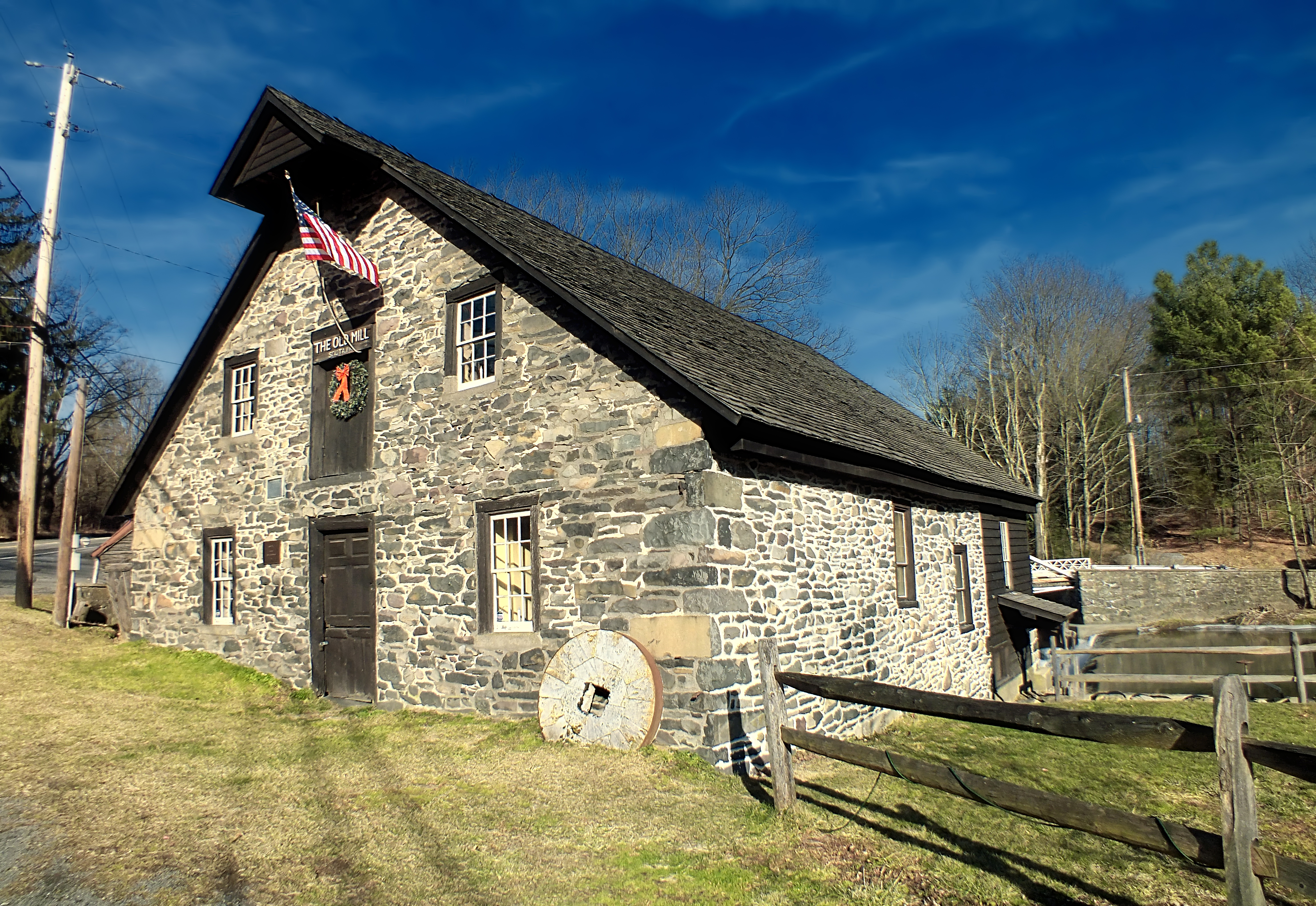 Hamilton Township, Monroe County. The mill, built in 1800, is listed in the National Register of Historic Places.